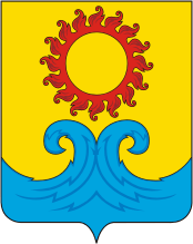 Coat of arms of Golubitskaya, Temriuk raion, Krasnodar Krai, Russia.